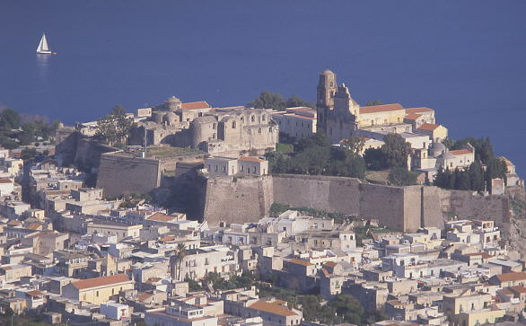 Picture of the Castello in the town of Lipari, Aeolian islands, Italia.